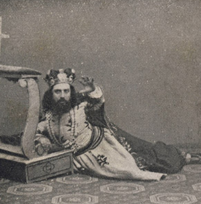 Amleto-1871-Antonio Cotogni as the King